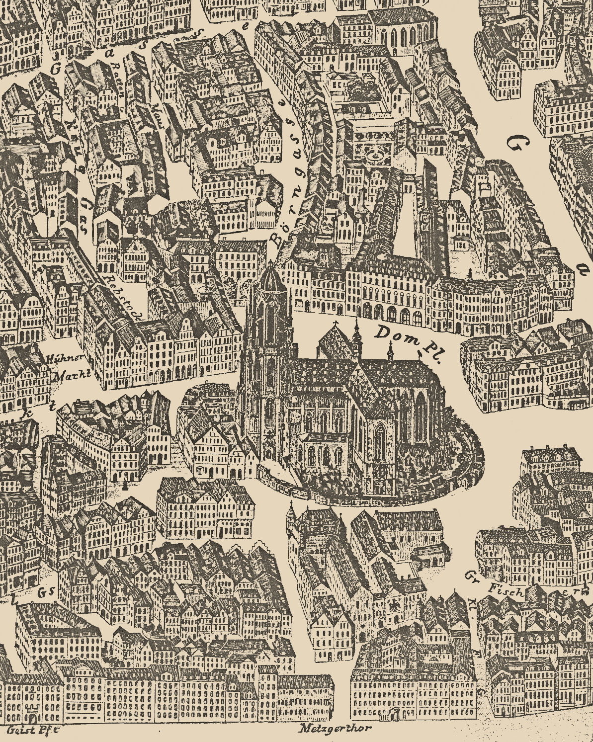 Details of the map of the city of Frankfurt am Main, Germany. In the center: Kaiserdom St. Bartholomäus (Cathedral St. Bartholomäus)